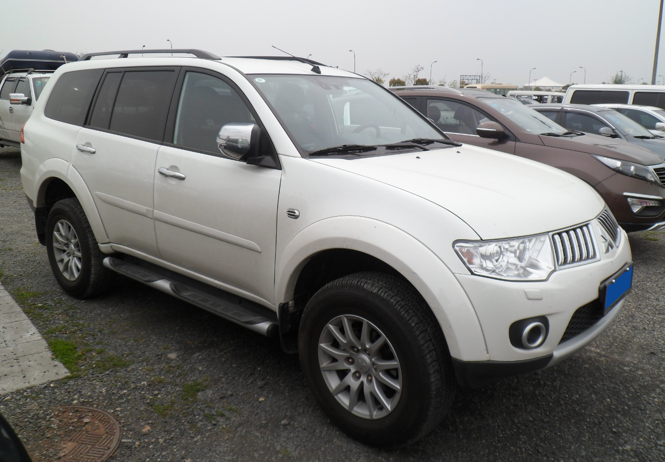 Mitsubishi Pajero Sport II photographed in Anting, Shanghai municipality, China.